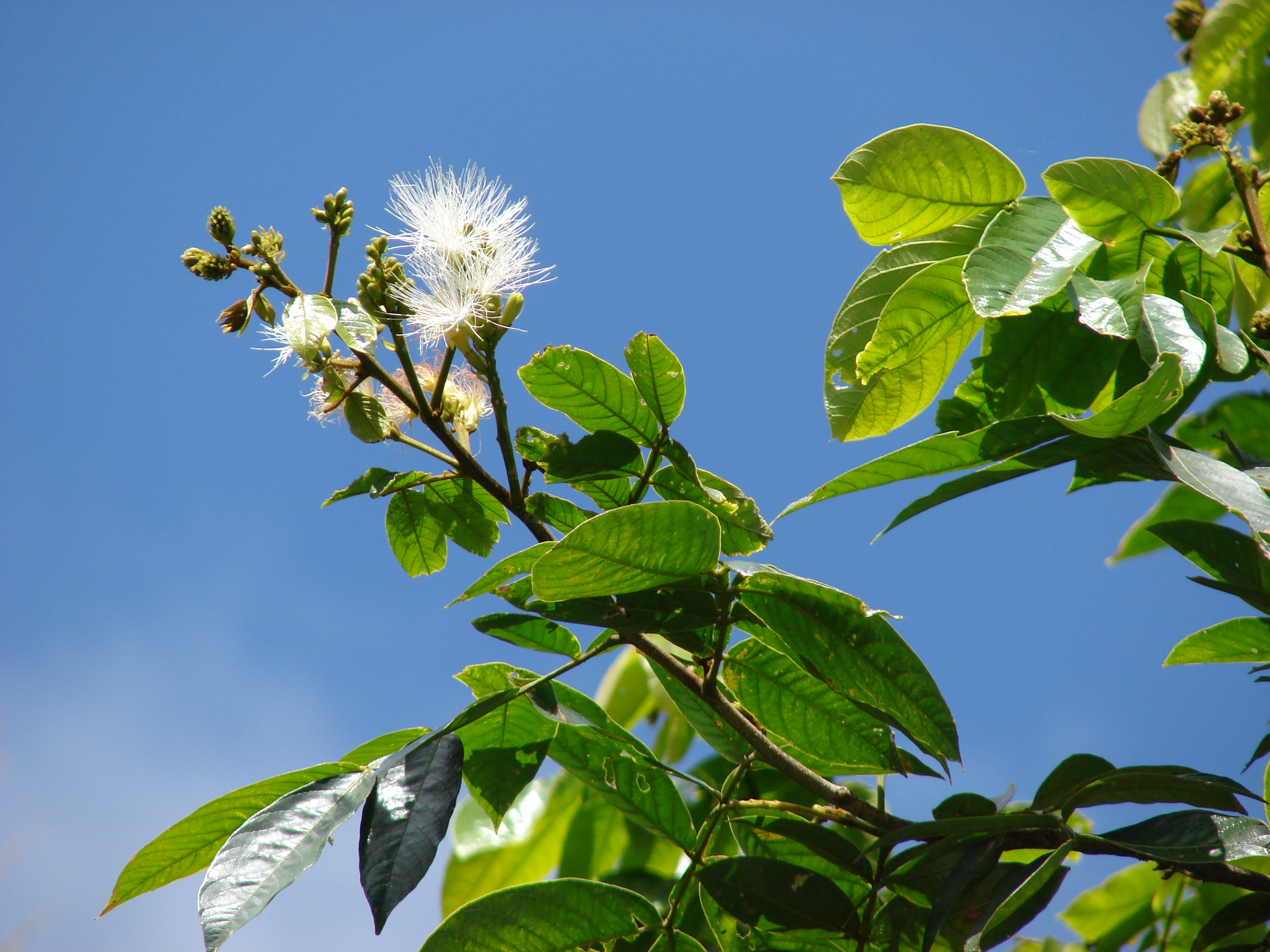 Inga feuillei (leaves and flowers). Location: Maui, Olinda